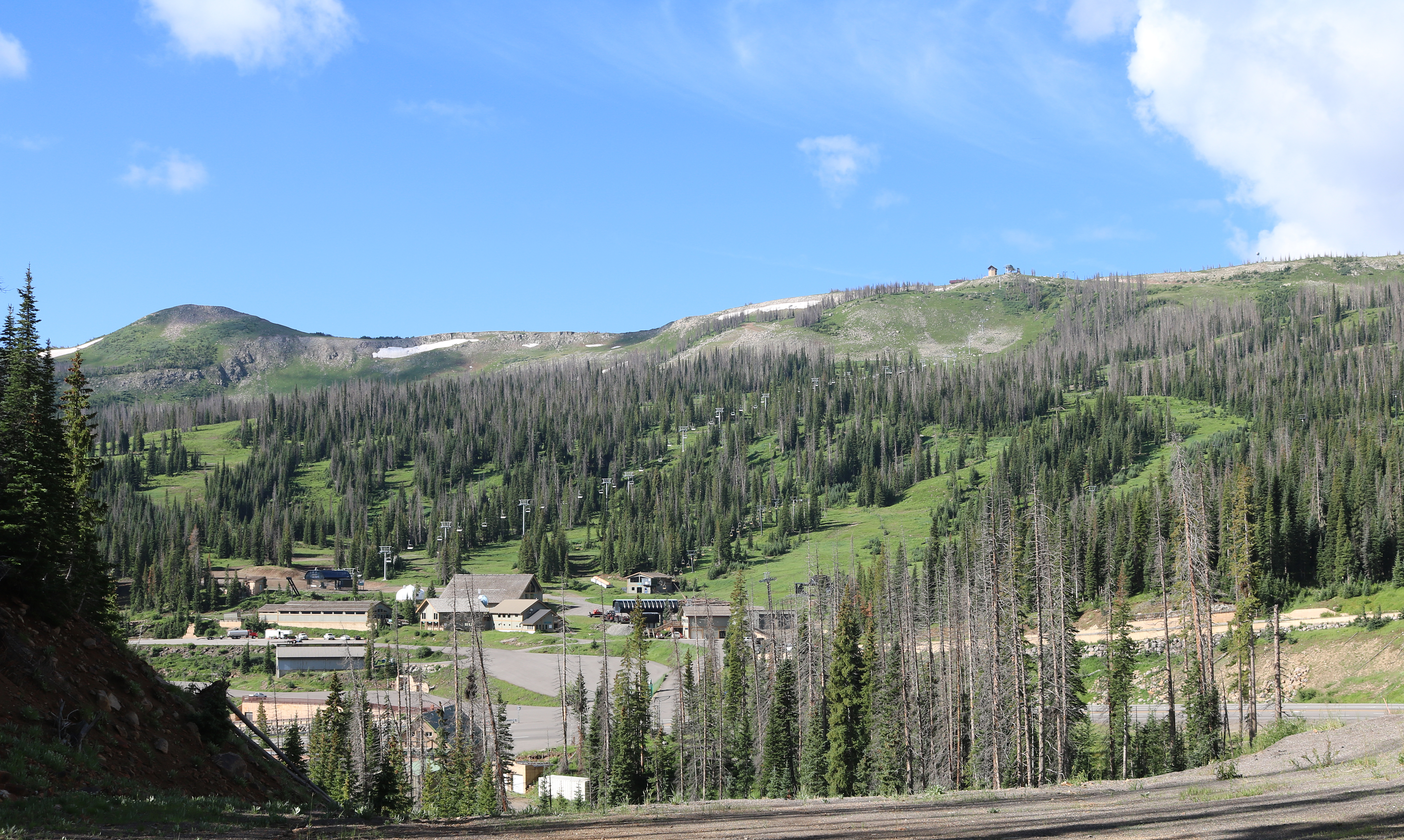 The Wolf Creek Ski Area in Mineral County, Colorado. The mountain peak on the left is Alberta Peak, elevation 11,850 feet (3,612 meters).